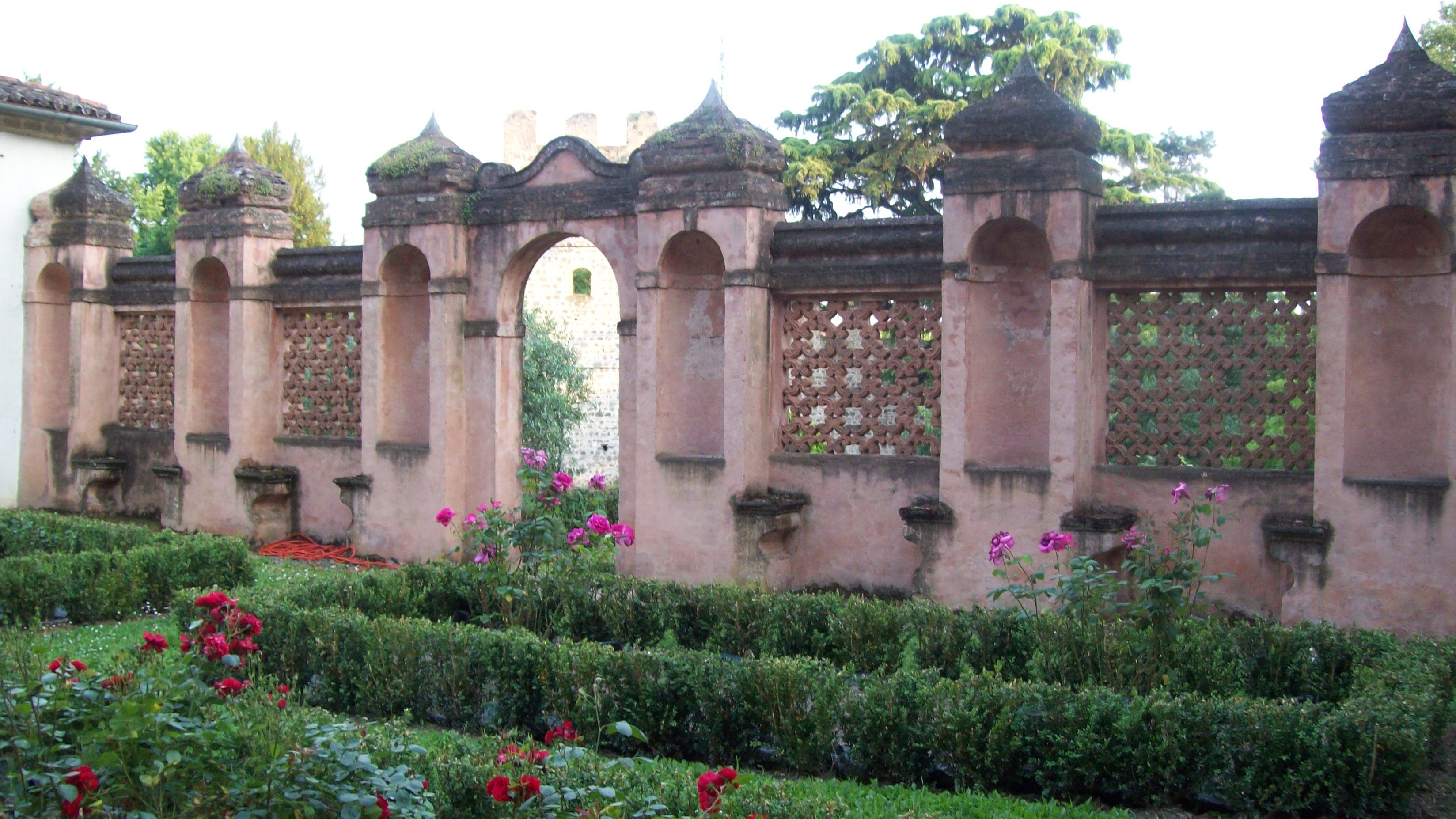 The persian architecture of the Orto Segreto